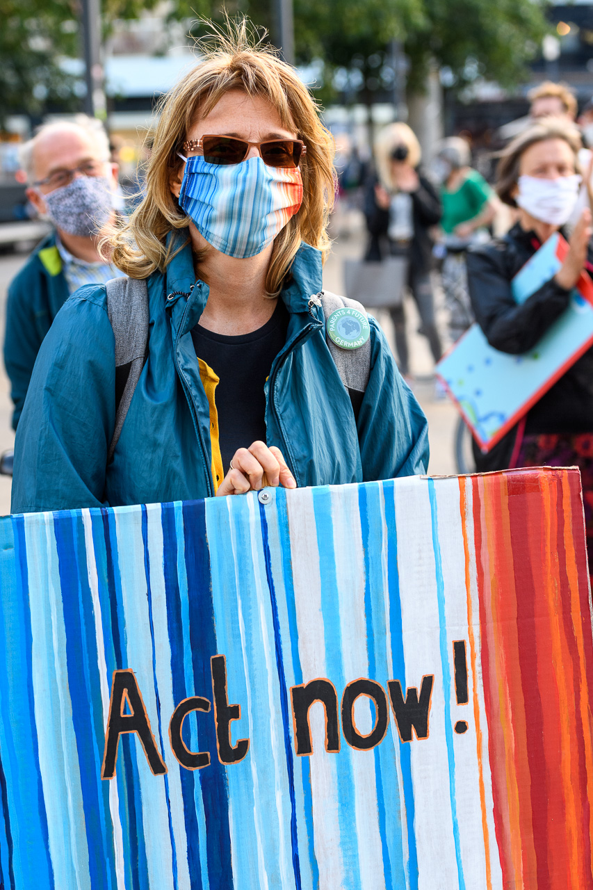 Demonstrator at Berlin4Future Montagsdemo (Monday demonstration) with mask and sign displaying Warming stripes data visualization graphic. From flickr source description: Berlin4Future: Barbara Fischer von Scientists For Future (Mitbegründerin von Coding Da Vinci) bei der ersten Berlin4Future Montagsdemo, Berlin, Alexanderplatz, 06.07.20